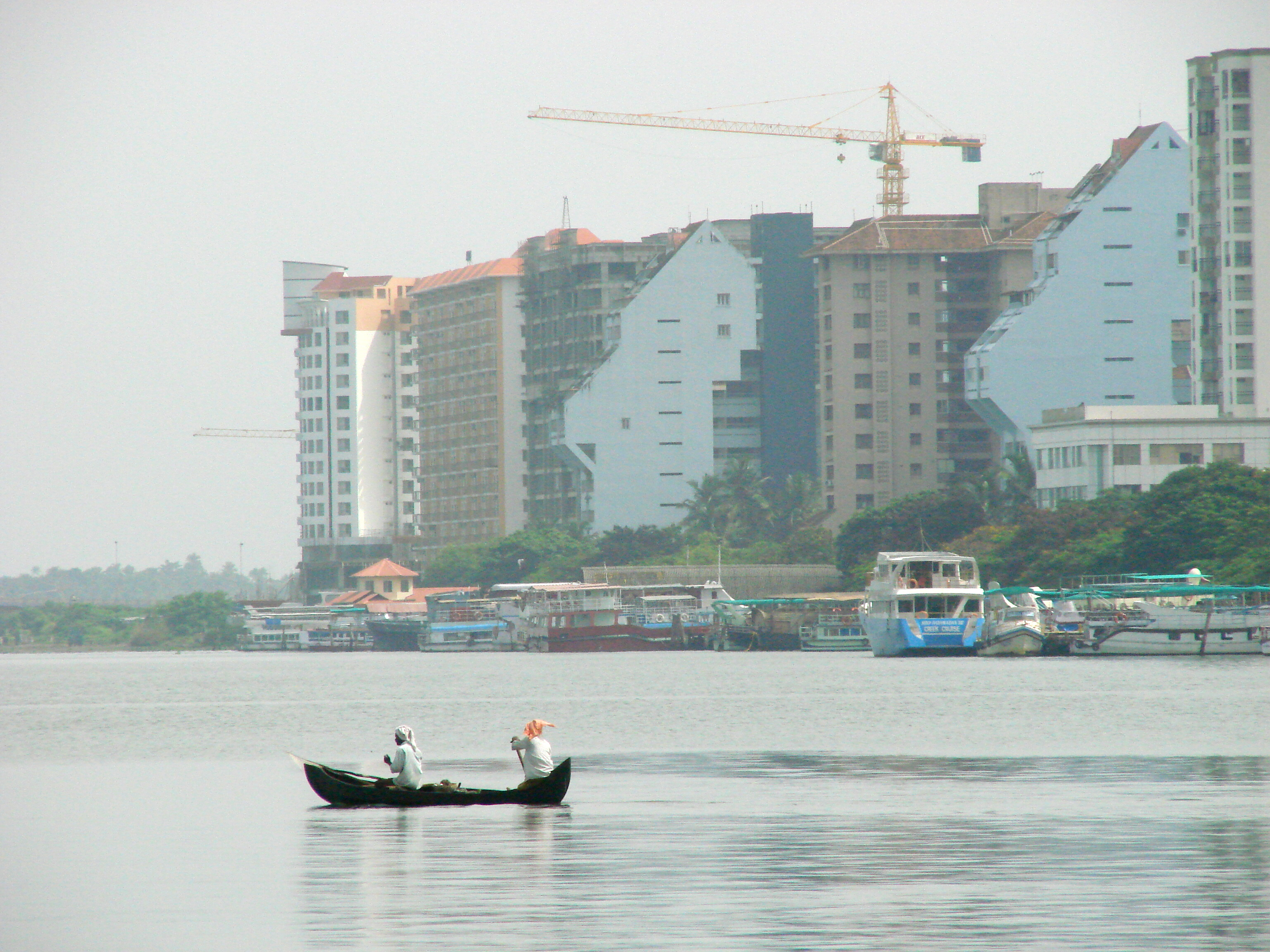 Traditional rowboat with modern backdrop (buildings of Ernakulam), in the harbour, Kochi/Ernakulam, India. June 2008.